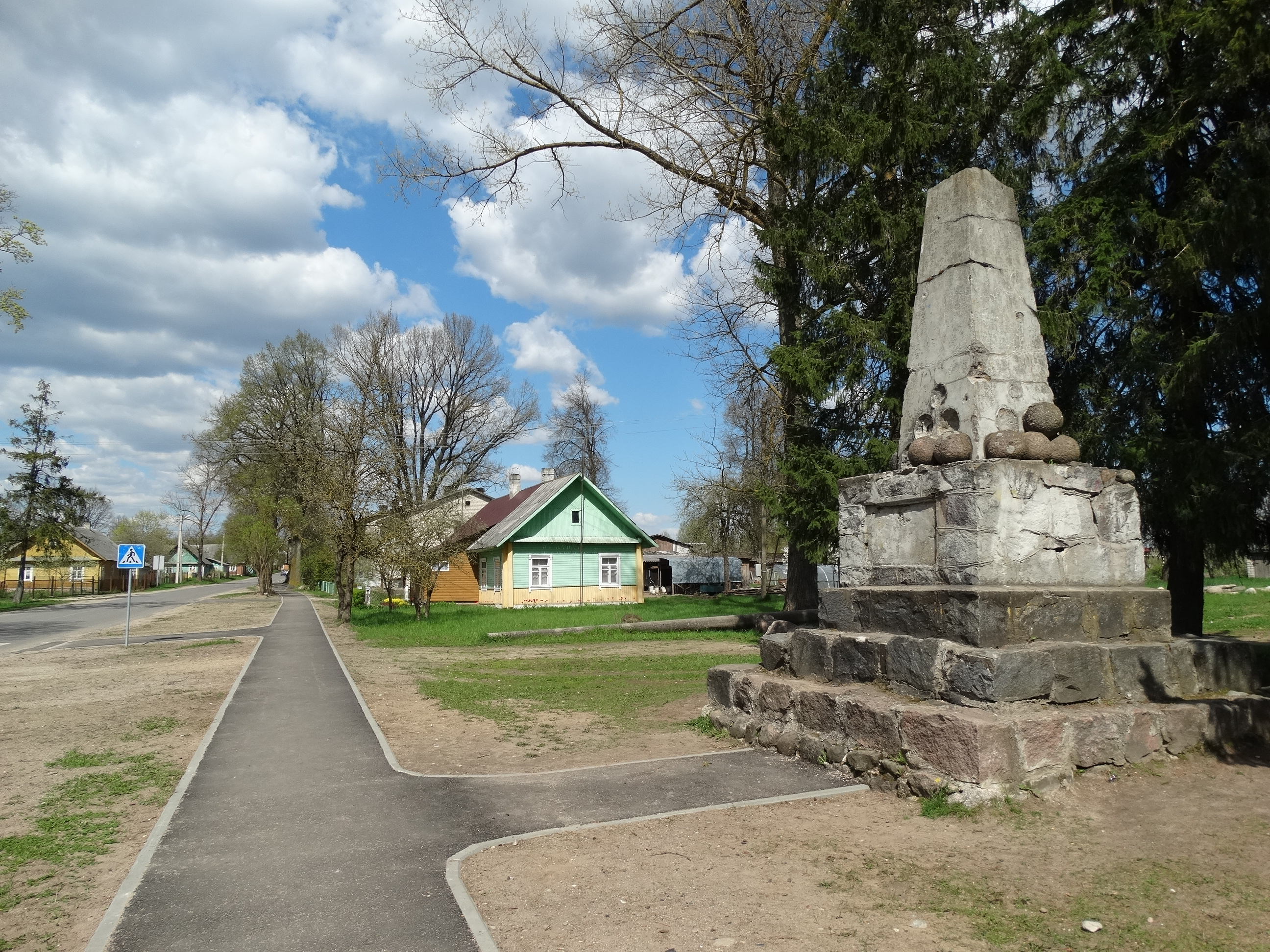 Old monument, dedicated to reunification of the Vilnius region and Poland, Dieveniškės, Šalčininkai District, Lithuania